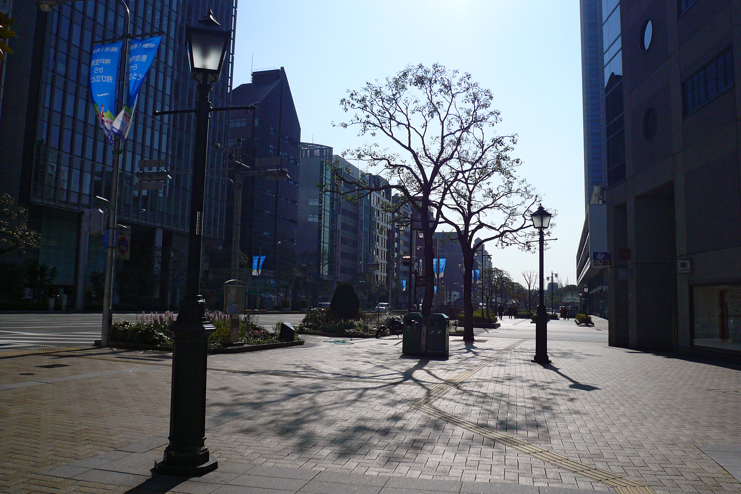 Flower Road in Kobe, Hyogo prefecture, Japan